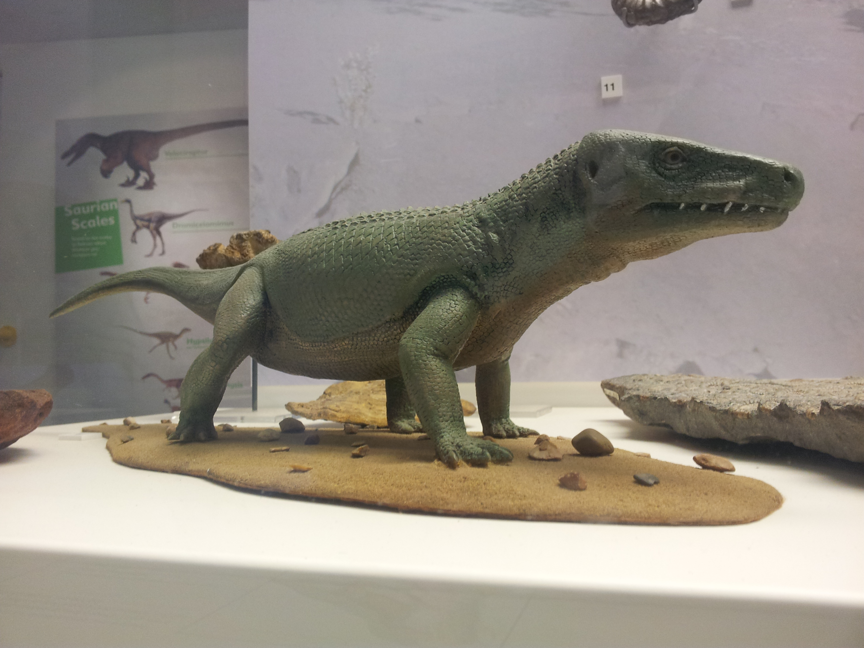 Euparkeria sculpture, Yorkshire Museum